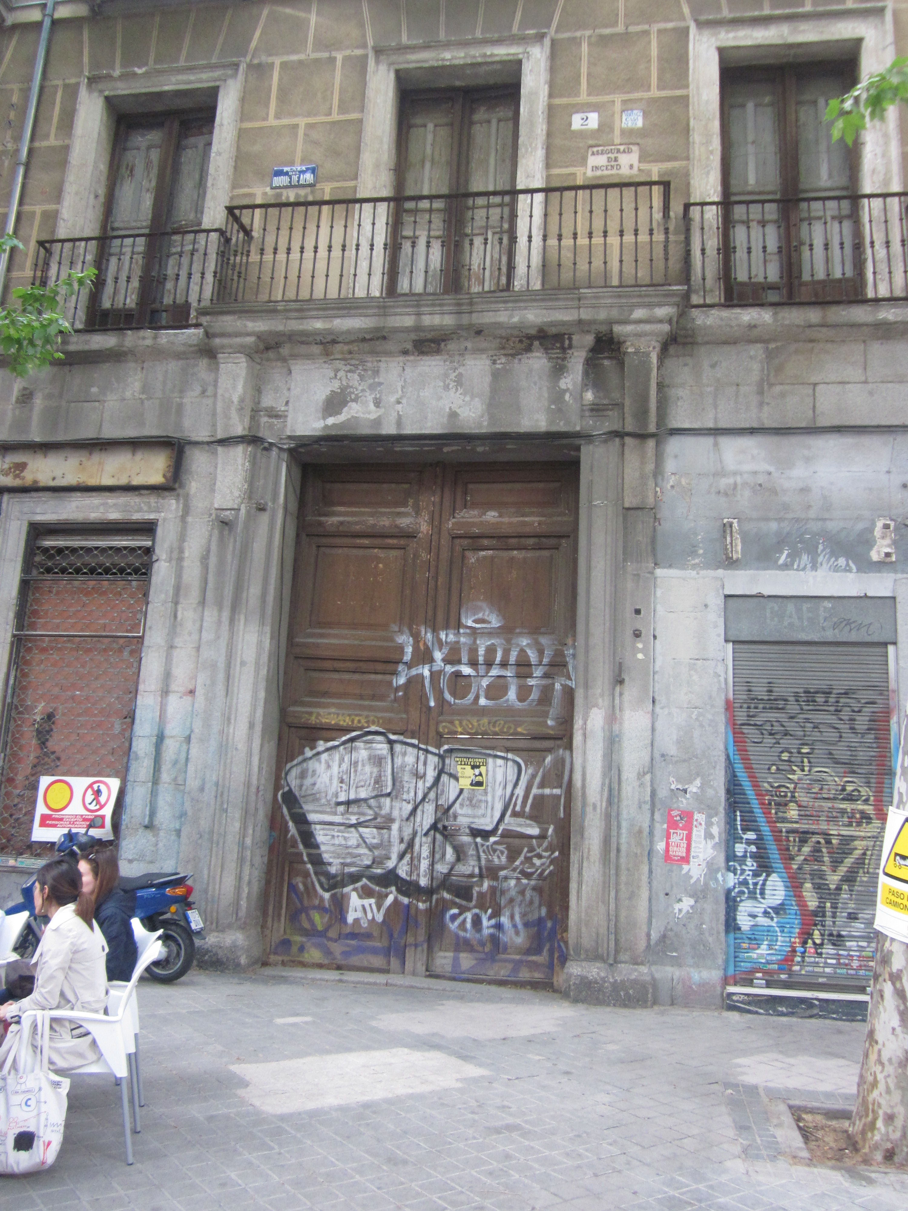 The Ministerio del Tiempo building at Duque del alba square in Madrid (Spain)